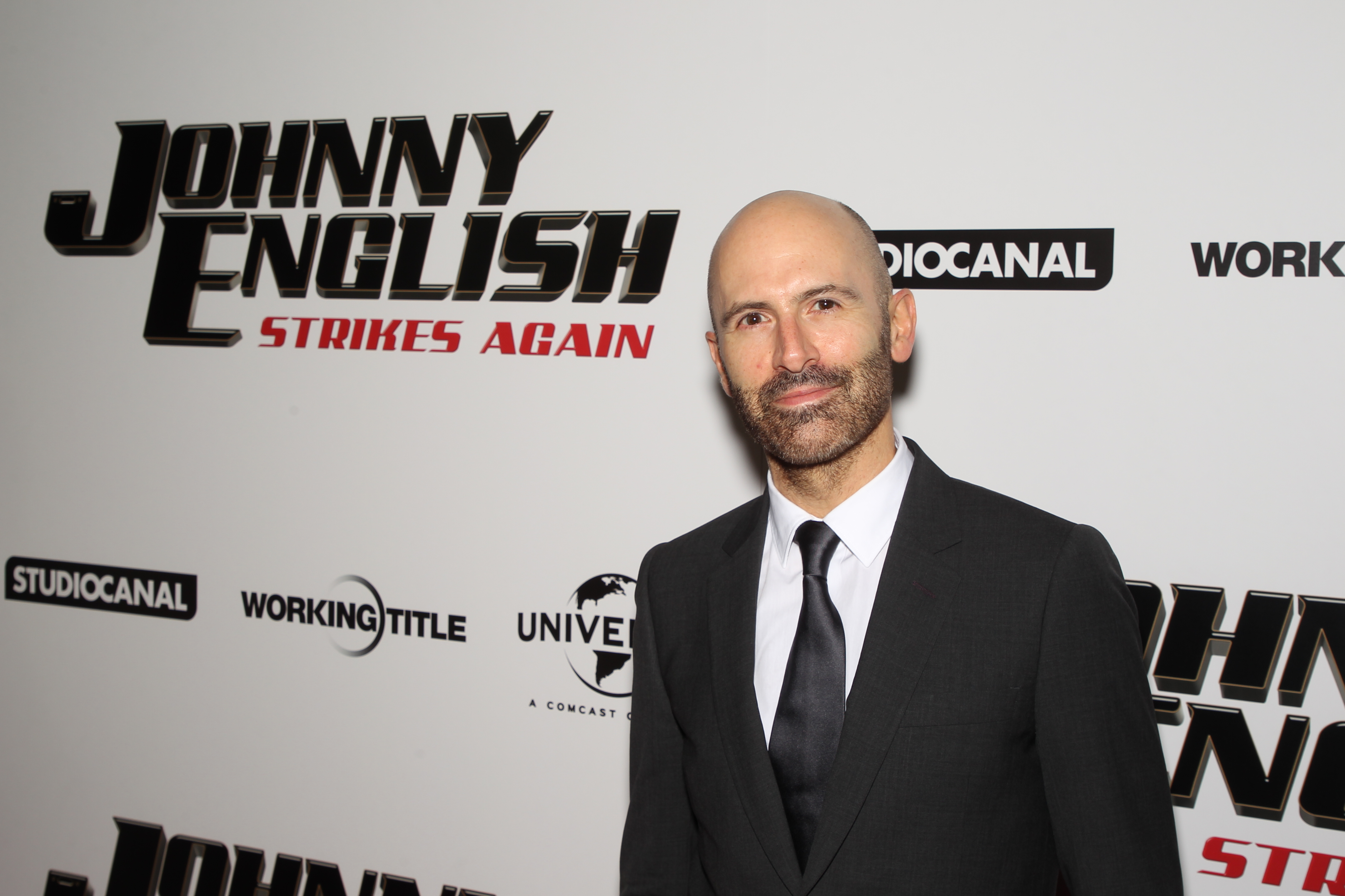 David Kerr attending the US premiere of Johnny English Strikes Again in New York, October 2018.